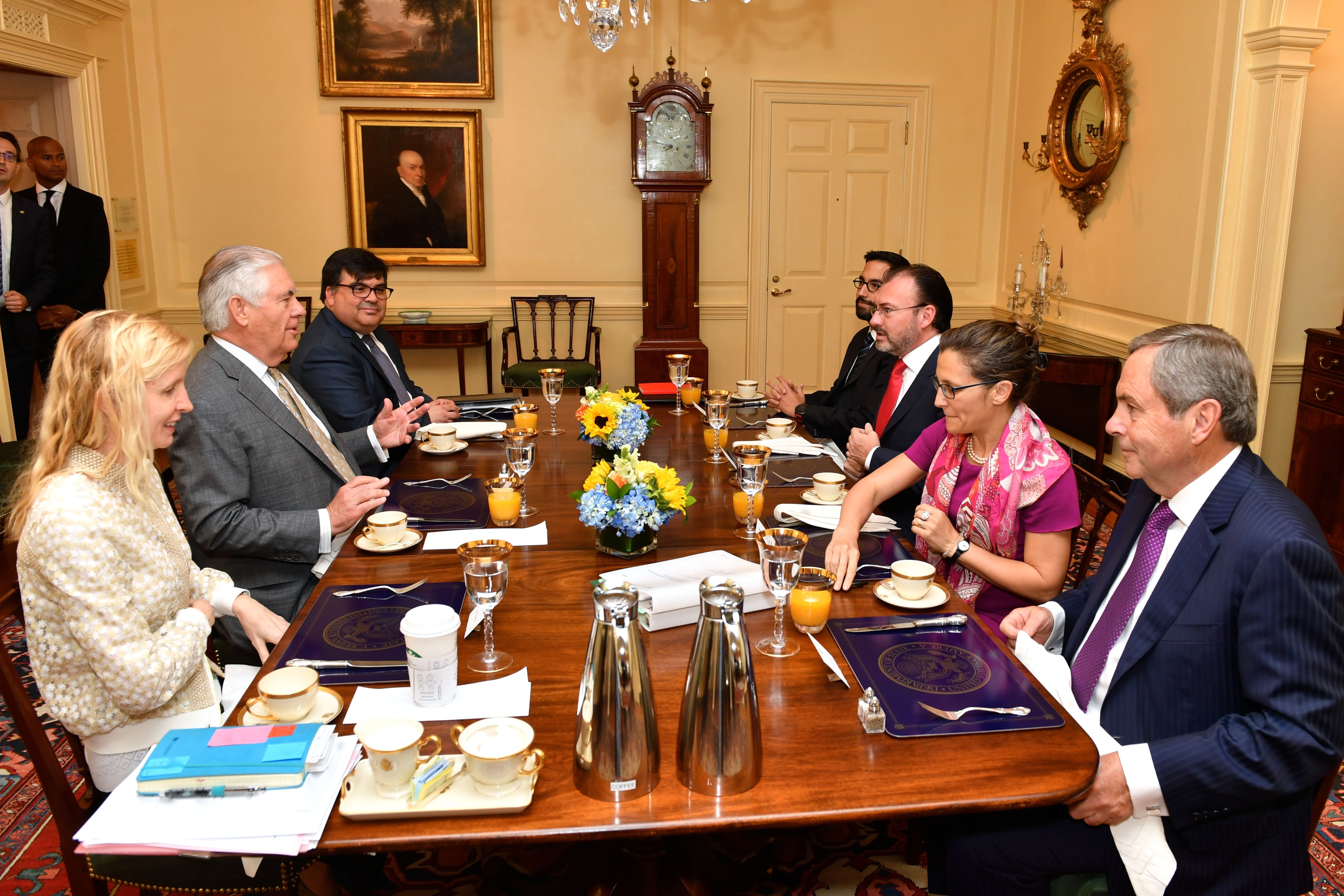 U.S. Secretary of State Rex Tillerson, with Chief of Staff Margaret Peterlin and Acting Assistant Secretary of State for Western Hemisphere Affairs Francisco Palmieri, hosts a working breakfast for Mexican Foreign Secretary Luis Videgaray Caso and Canadian Foreign Minister Chrystia Freeland at the U.S. Department of State in Washington, D.C., on May 31, 2017. Also pictured is Canadian Ambassador to the U.S. David MacNaughton. [State Department photo/ Public Domain]